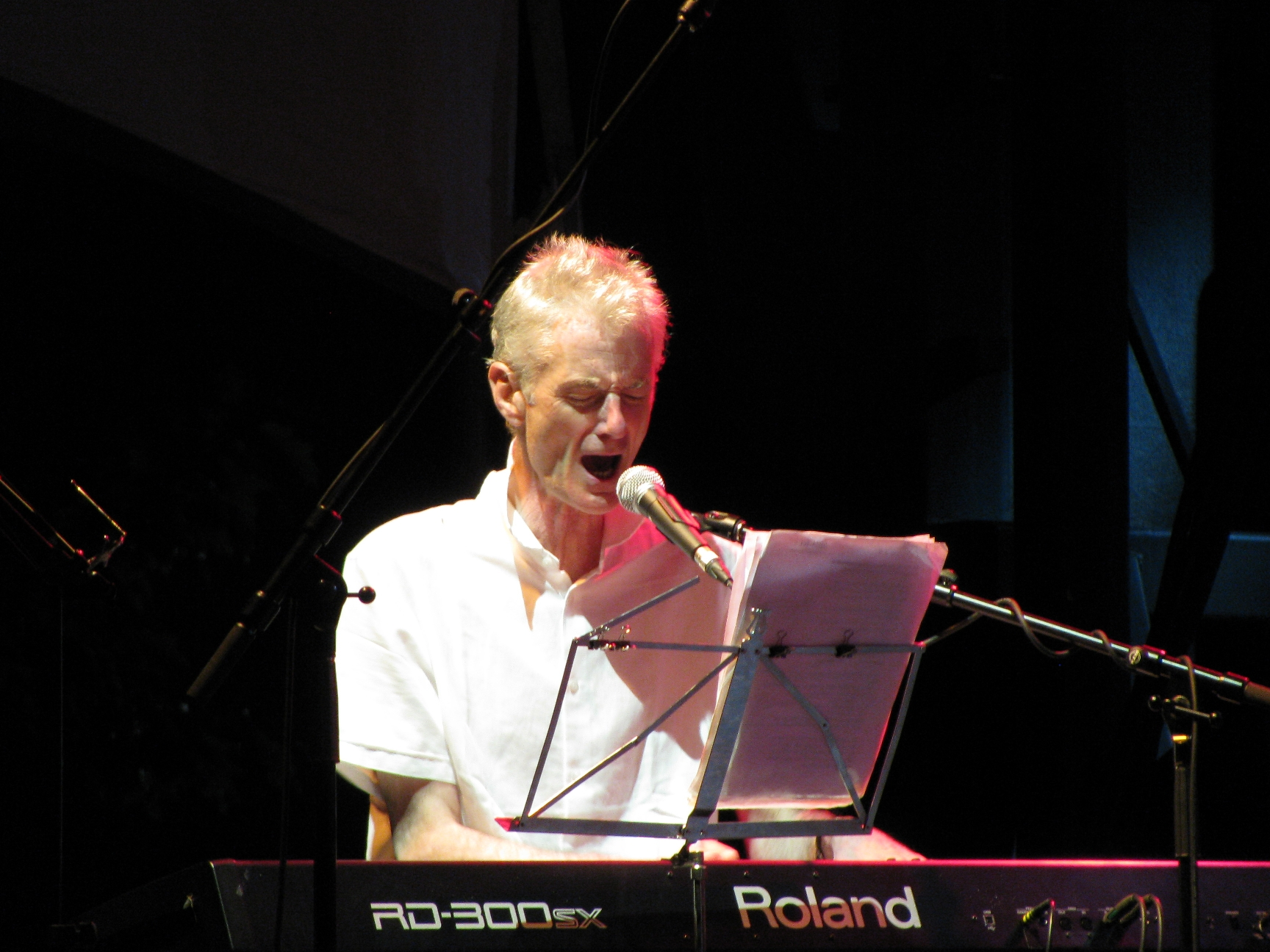 Peter Hammill of van der Graaf Generator at the 2009 Ottawa Bluesfest